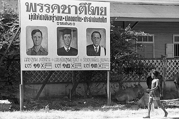 Chart Thai Party campaign poster, ca. 1976, by Norman Peagam